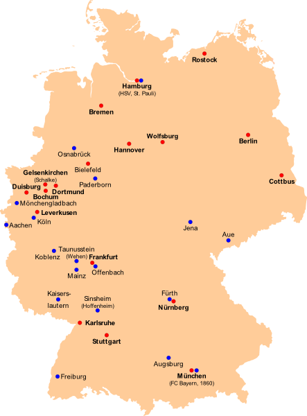 Map of the hometowns of the clubs playing in 1st and 2nd Bundesliga, season 2007/08. Towns with clubs playing in 1st Bundesliga are marked red, towns with clubs playing in 2nd Bundesliga are marked blue.